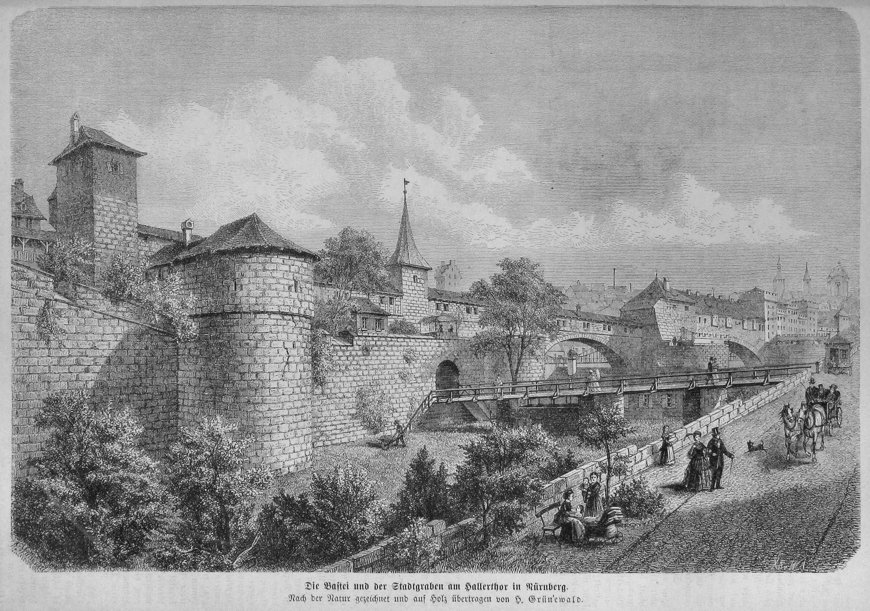 caption: "Die Bastei und der Stadtgraben am Hallerthor in Nürnberg. Nach der Natur gezeichnet und auf Holz übertragen von H. Grünewald."